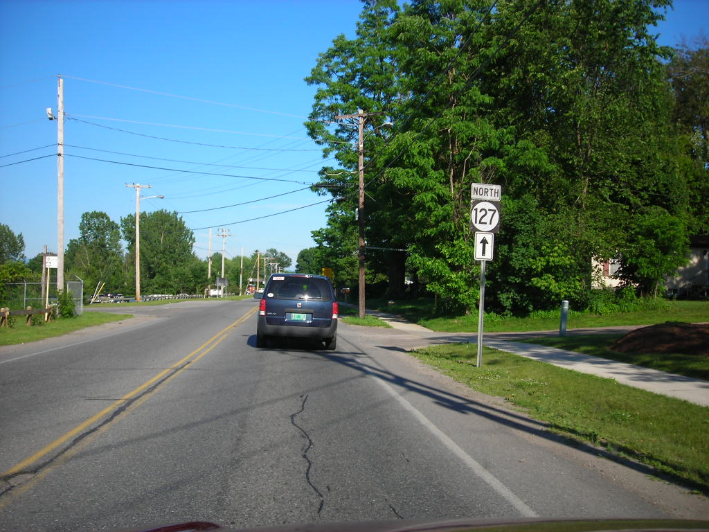 Vermont State Route 127 heading northbound through Burlington.